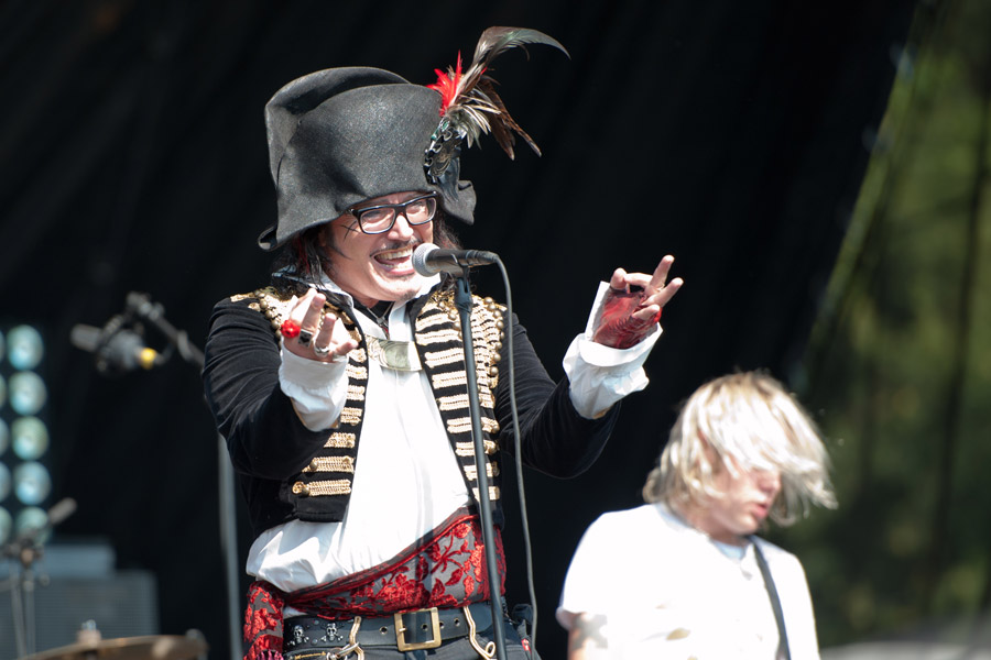 Adam Ant @ Music Midtown in Atlanta, GA on September 22, 2012.